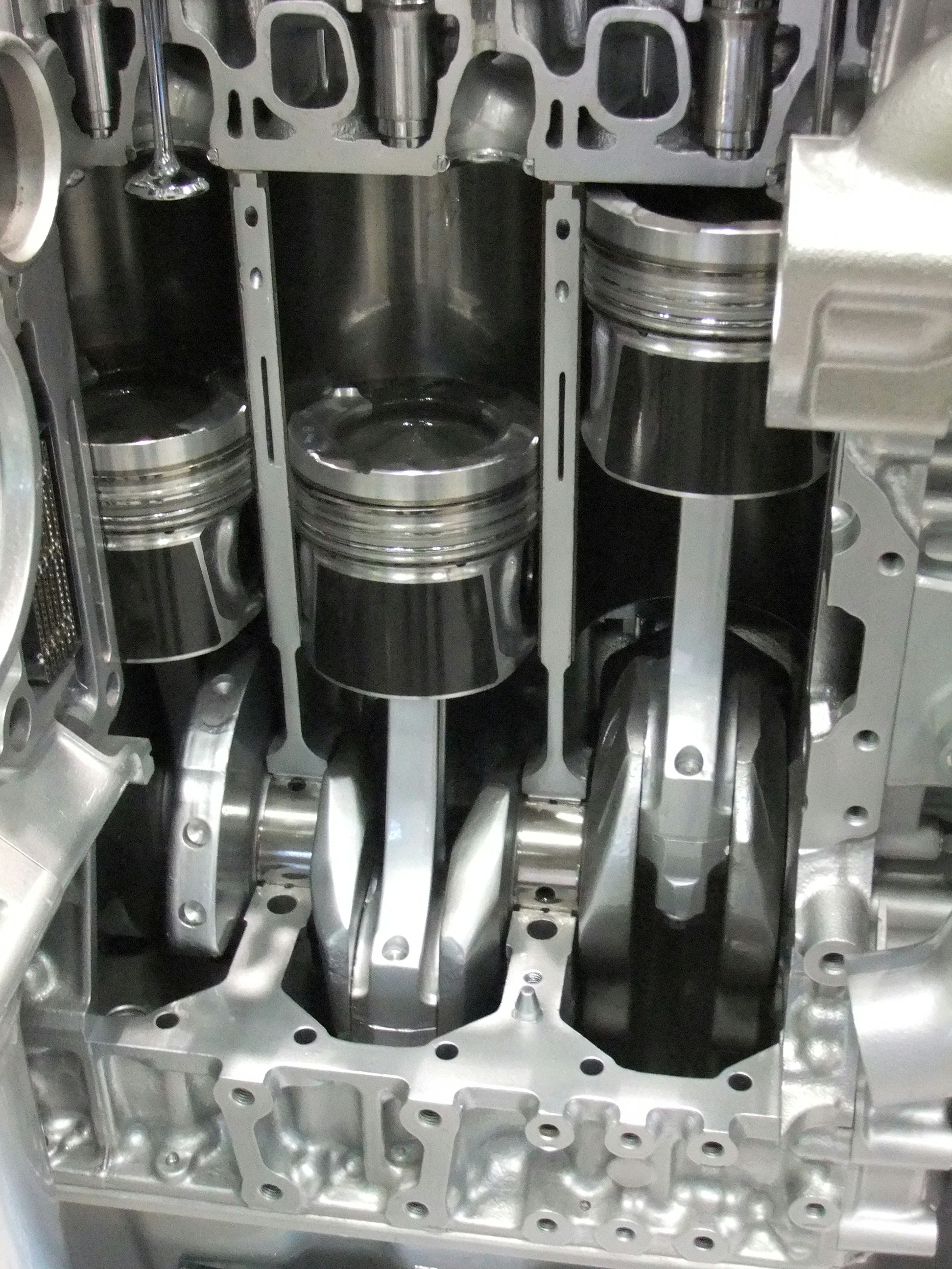 Engine, Partial cross-sectional view